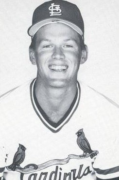 Image cropped from a baseball card of John Morris from the 1987 St. Louis Cardinals Photocards set.